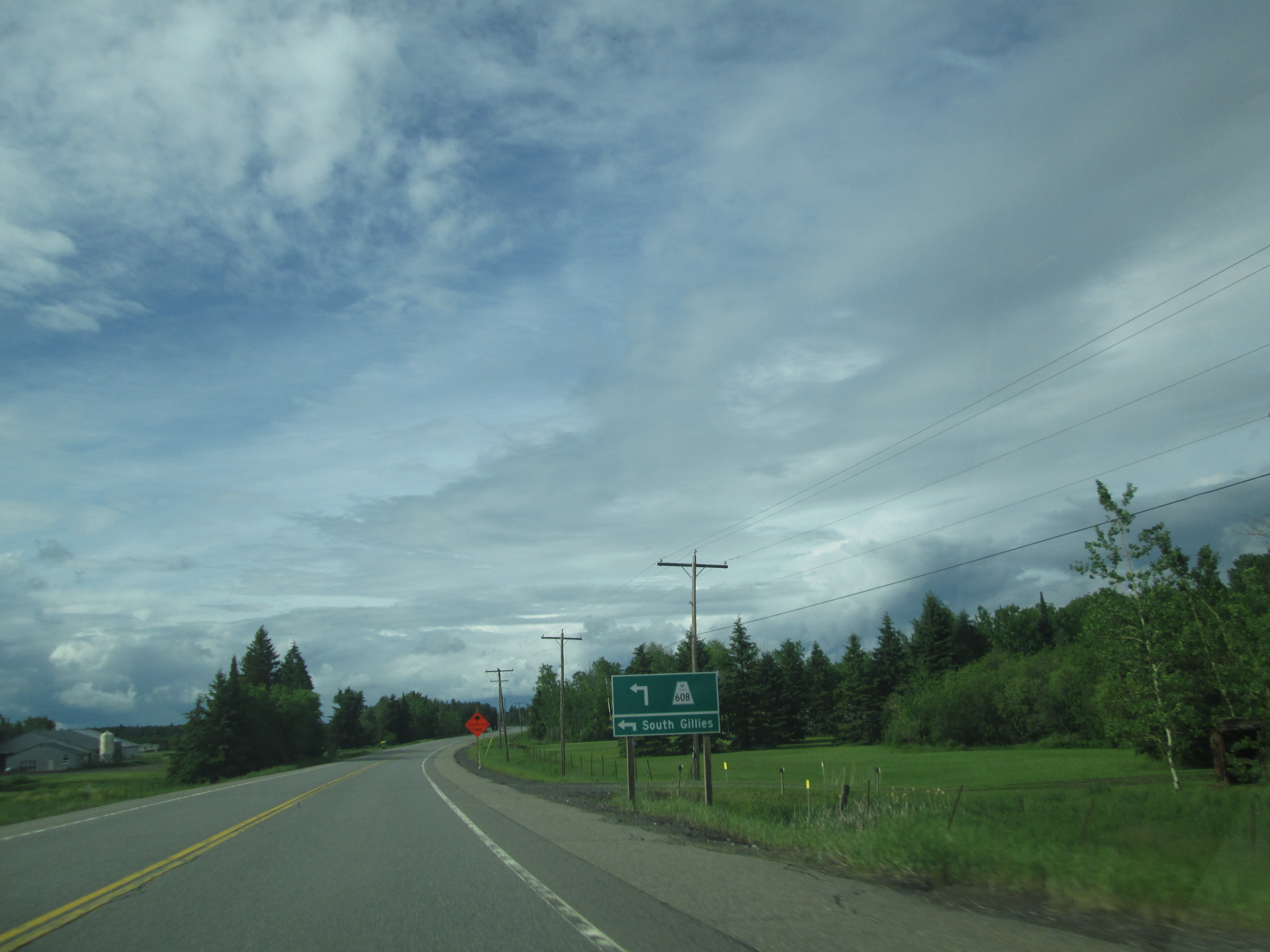 Junction of ON-61 and ON-608. Picture taken from ON-61, going northbound.